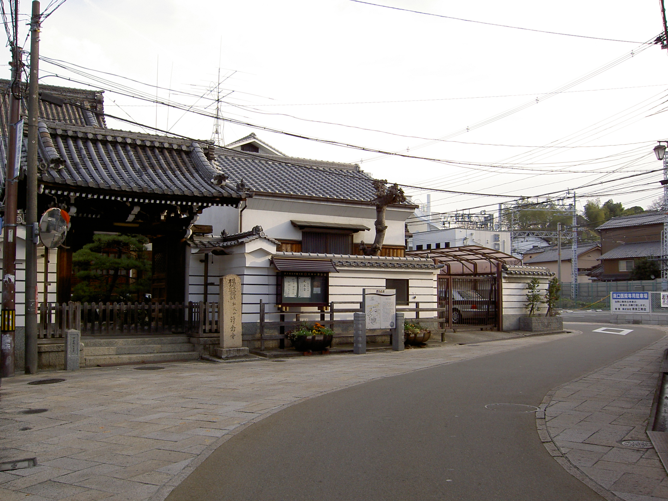 Hirakata juku, Jyonen temple and Masugata road. 7-21, Miyacho, Hirakata-shi, Osaka Japan.